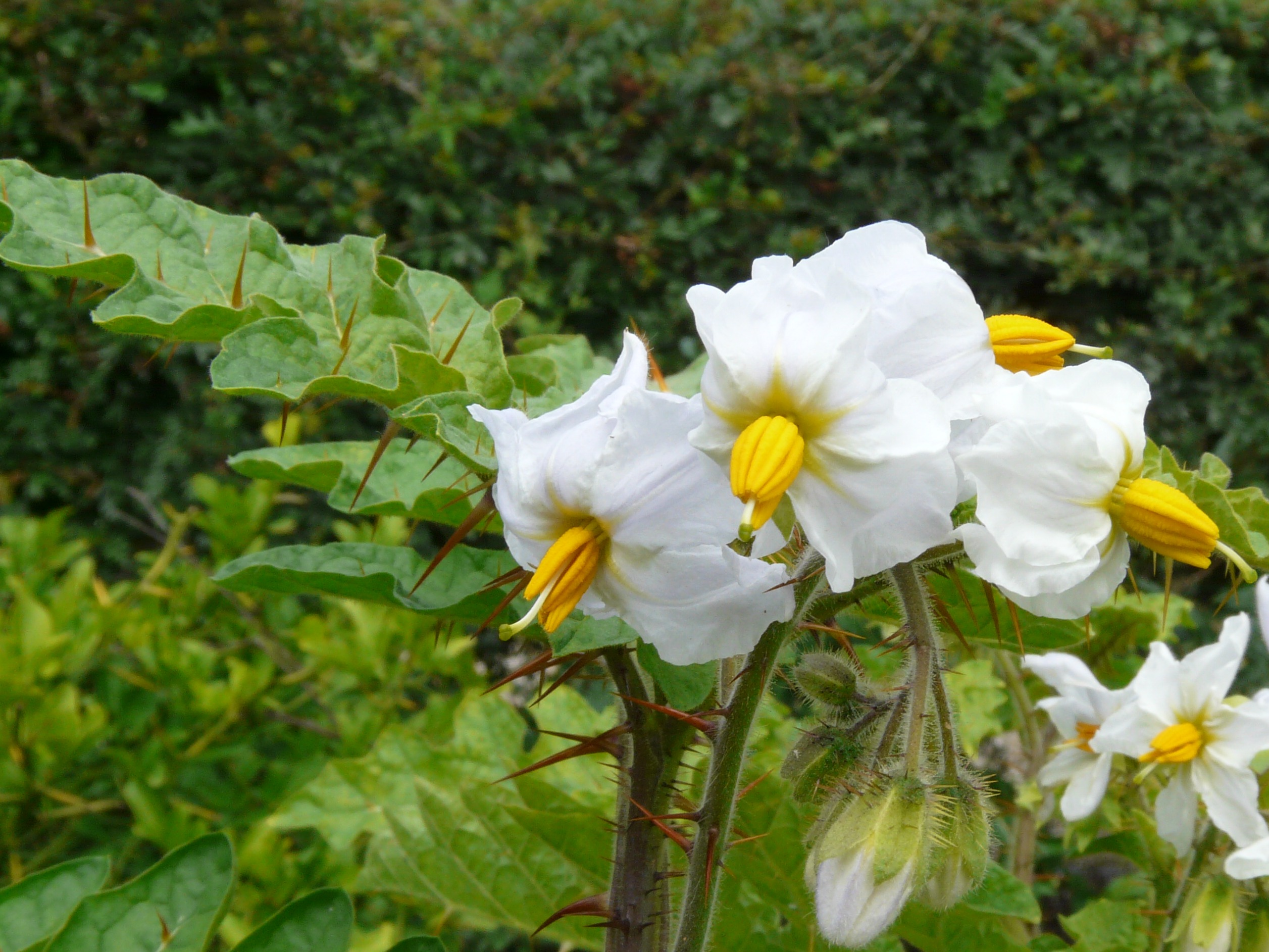 Solanum sisymbriifolium (Botanical Gardens Utrecht)